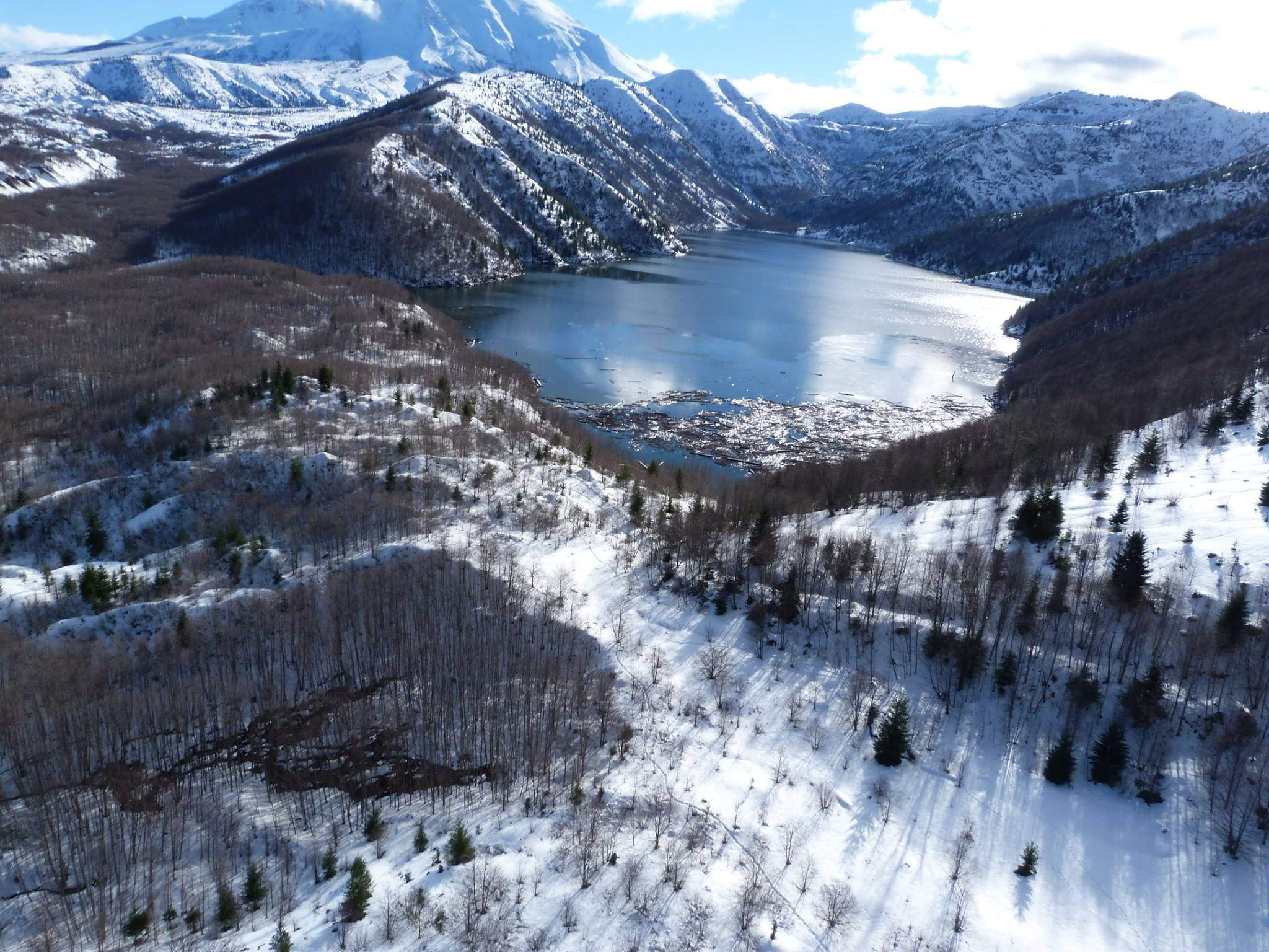 When weather permits, crews visit stations on Mount St. Helens to repair, refurbish and replace equipment necessary to keep monitoring data transmitting 24/7. Here is an aerial view of Castle Lake taken on January 8, 2016 by USGS scientist Tami Christianson. Castle Lake was created after the debris avalanche that swept down the Toutle River during the May 18, 1980 eruption of Mount St. Helens blocked South Fork Castle Creek. Mount St. Helens is in the upper left of the image.